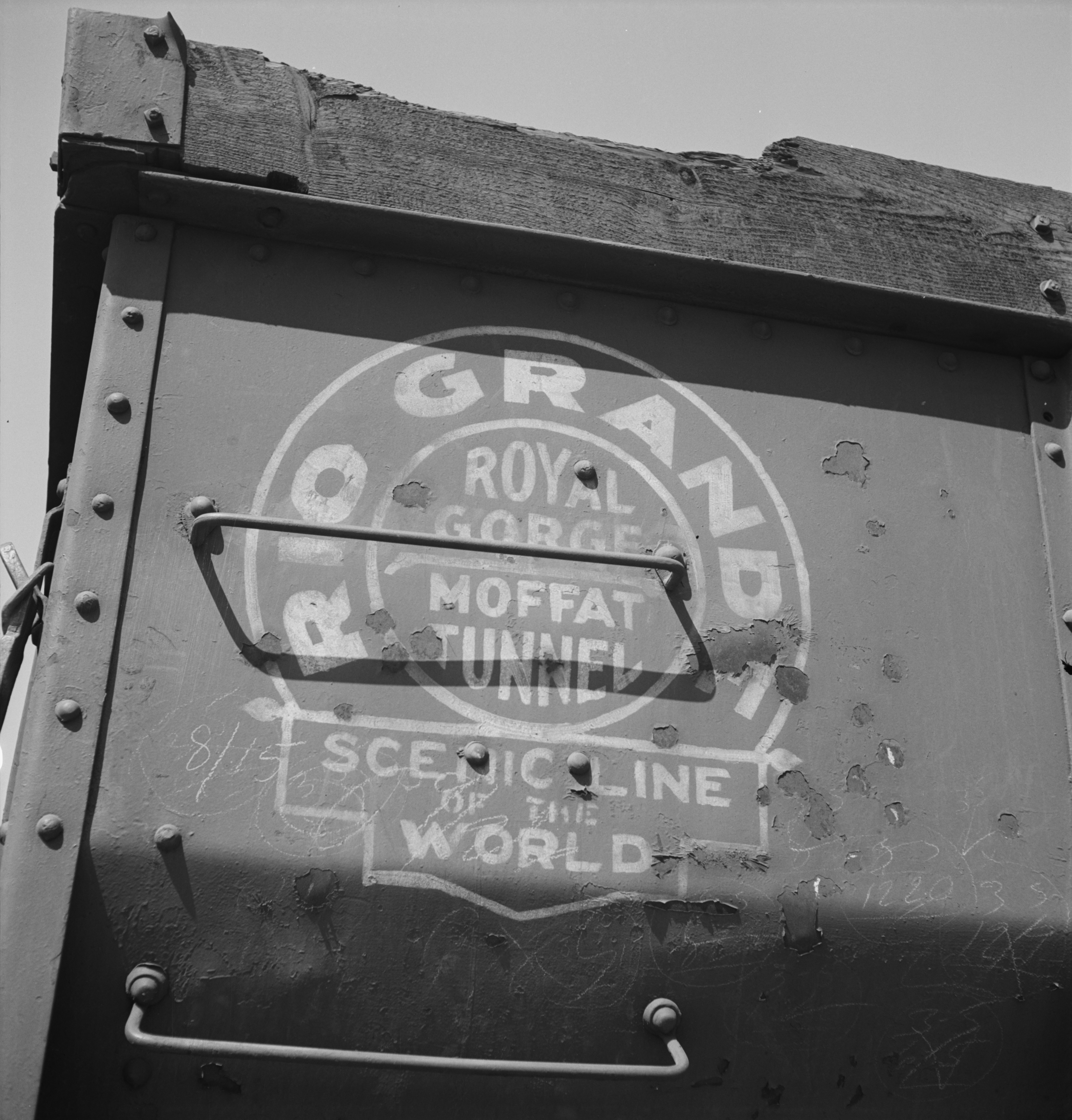 San Bernardino, California. A sign on a car of the Denver and Rio Grande Western Railroad